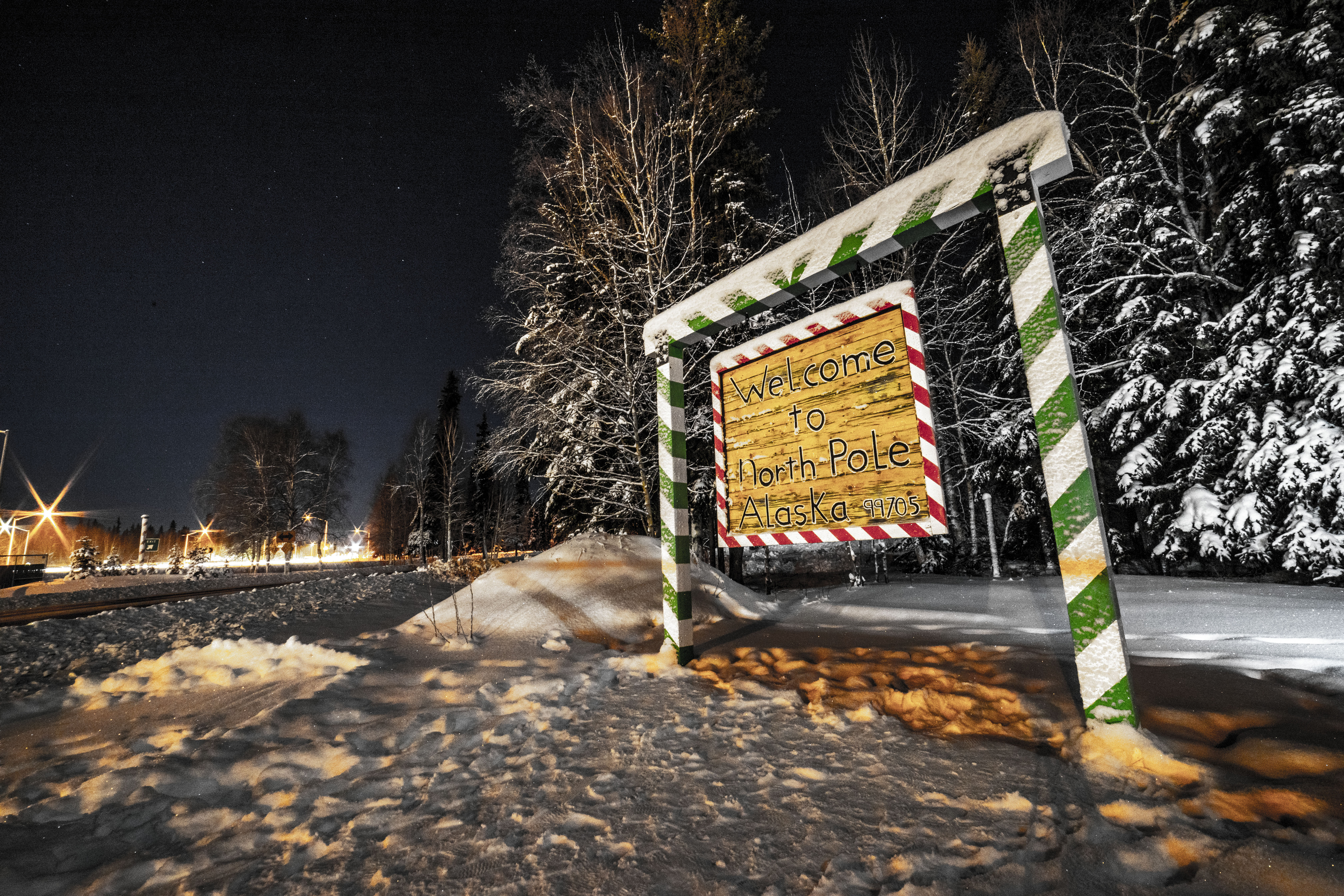 Located at 64.750694 -147.329937